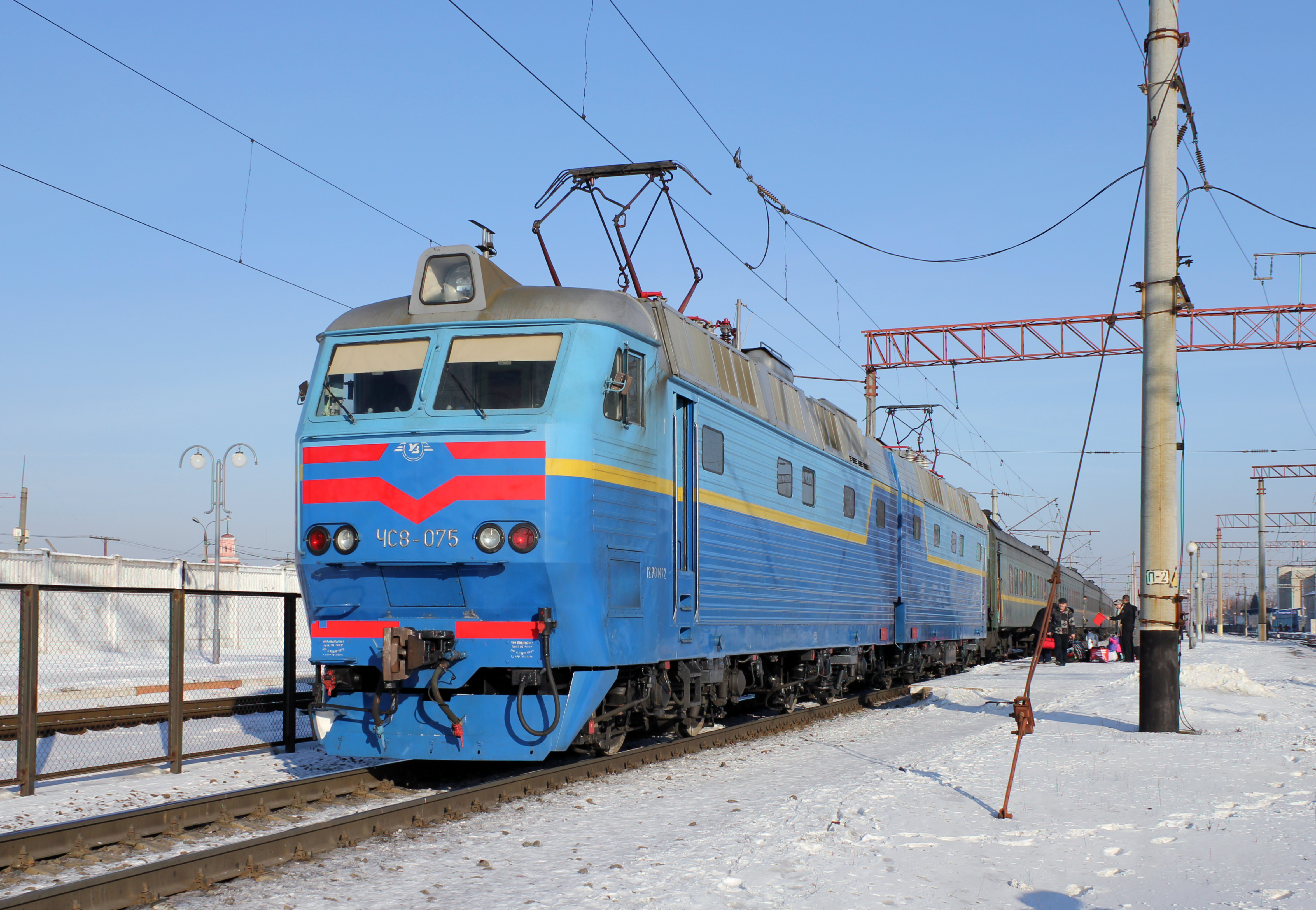 Electric locomotive Škoda ChS8-075 in Vinnitsa railway station. This locomotive has been made in 1989. The Moscow — Kishinev train.